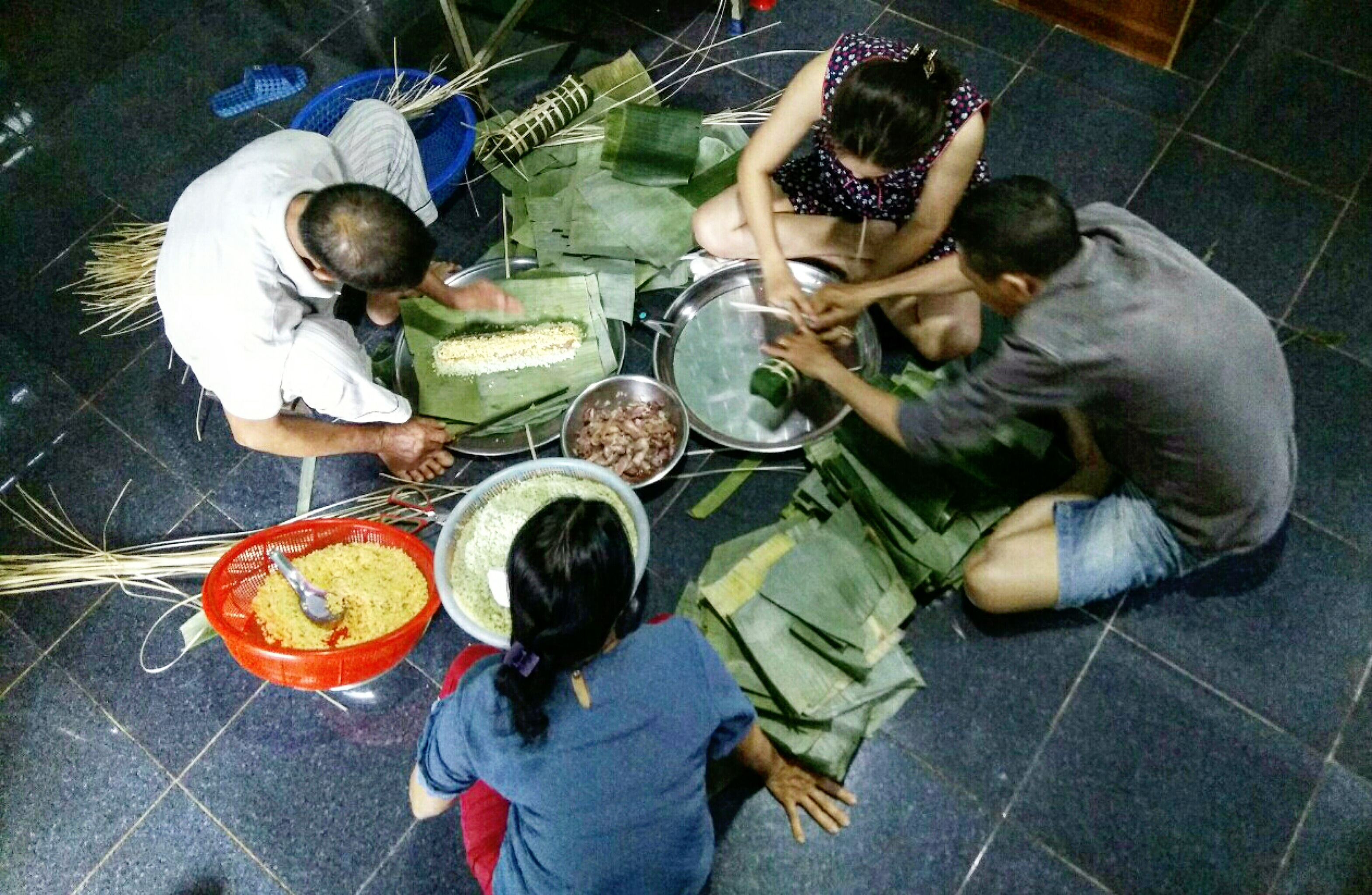 A Vietnamese family is making bánh tét (or bánh đòn, Vietnamese sticky rice cake) on the biggest traditional holiday of Vietnam, Tết holiday, the Vietnamese Lunar New Year. Bánh tét is one of a must tradional food that is made and eaten only on Tet holiday by families in the South and the Central of Vietnam. In the North, they make bánh chưng. However, nowadays, this kind of food is still available sometimes at some shops and markets during the year, especially at markets in small towns. However, the quality is not as good as the ones that made by families for themselves. In the past, families usually made bánh tét on the day before Tết. They cooked it and celebrated the New year's Eve at the same time. Gathering together to make bánh tét is a very beautiful tradition of Vietnam. It's not only the time to make bánh tét, but also the time for family members to bond and come together by talking, recalling memories, laughing together and celebrating the holiday spirit after a long hard working year that they might even not meet each other. And also, it's a special time for the kids to learn about the Vietnamese traditions and the legend of bánh tét. This way, historical values are reserved. However, it takes a lot of time and techniques to make bánh tét so nowadays, many families choose to buy bánh tét in stead of making it by themselves. This somehow makes the beauty of the traditions and customs of Tet holiday in Vietnam is not as how it used to be in the past anymore. Therefore, there's nothing to make sure that images like this will still available to catch in the future when life has been getting more and more modern and people tend to choose convenient things. This photo has been taken in the country: Vietnam